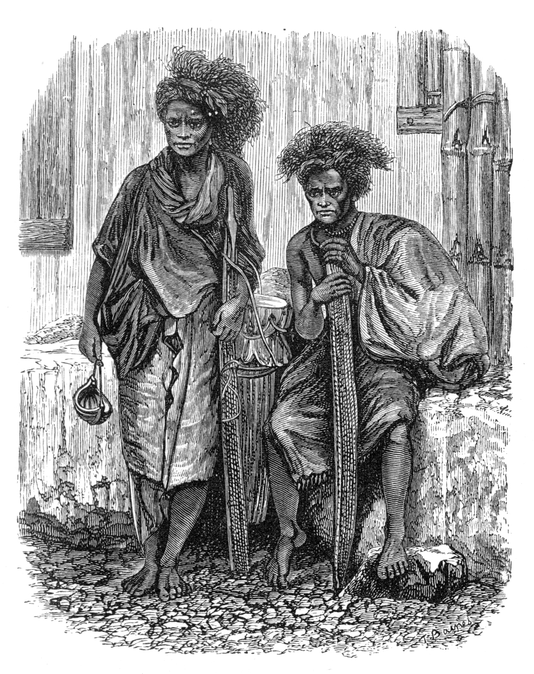 Drawing of "Timor Men" by Thomas Baines, from a photograph, in The Malay Archipelago by Alfred Russel Wallace, 1869.